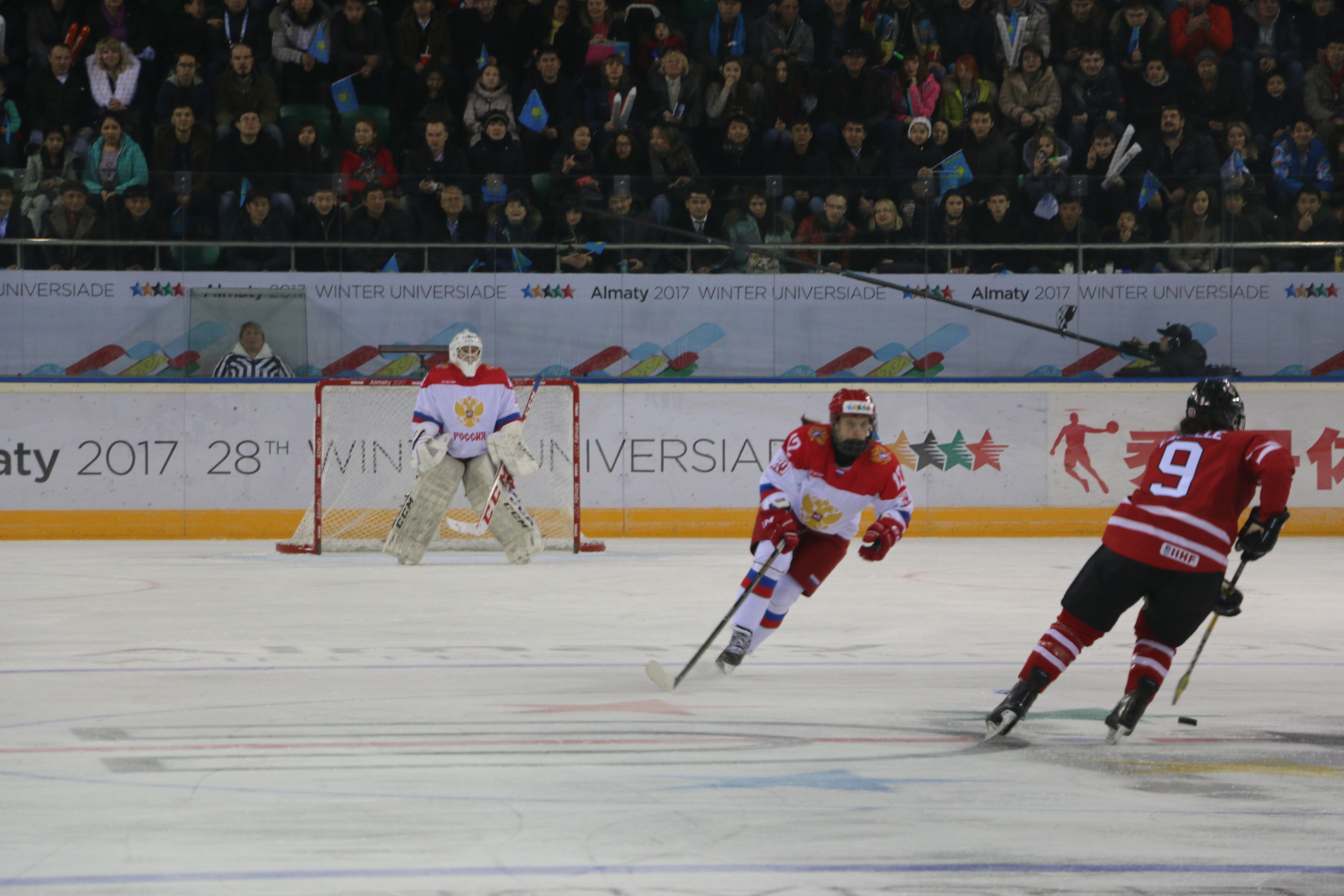 Universiade 2017. Ice hockey. Final. RUS - CAN